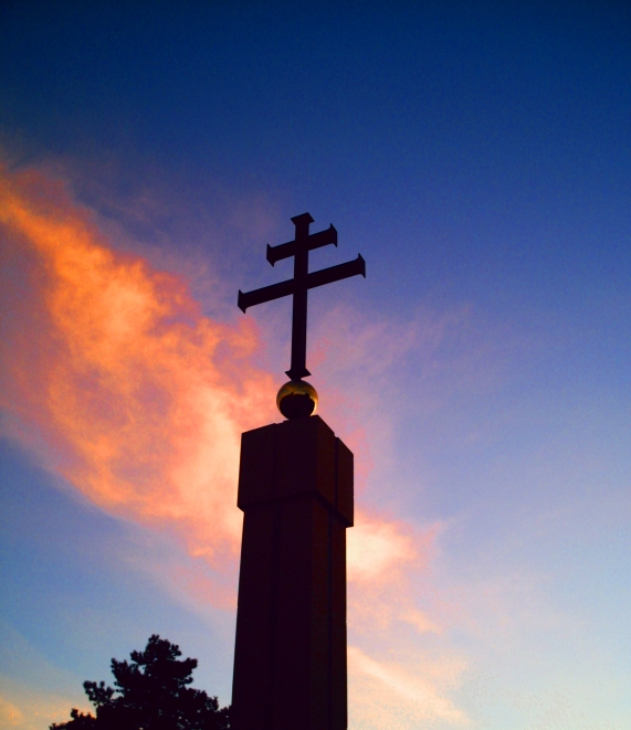 Saint Paul School of Divinity